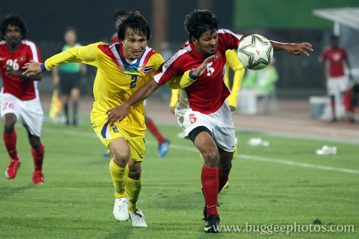 Maldives VS Thailand